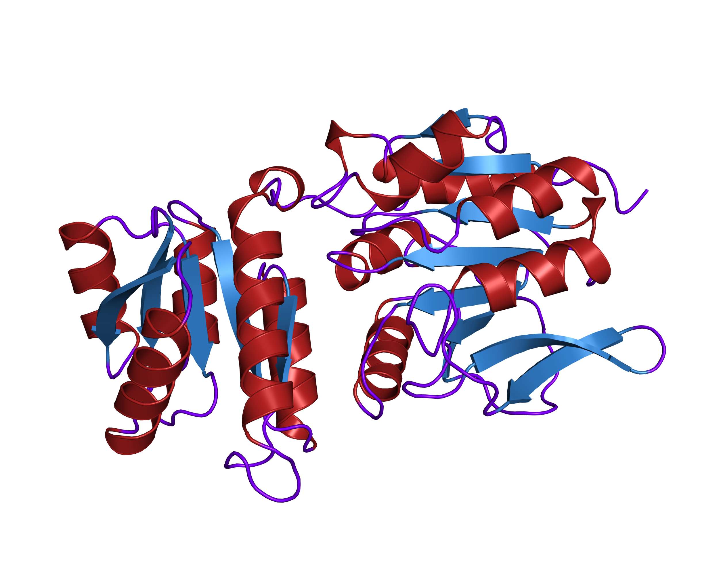 3D structure of protein deposited with PDB code 1a2o.